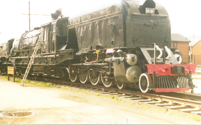 Coatbridge. Class GMAM 4112 (4-8-2+2-8-4)